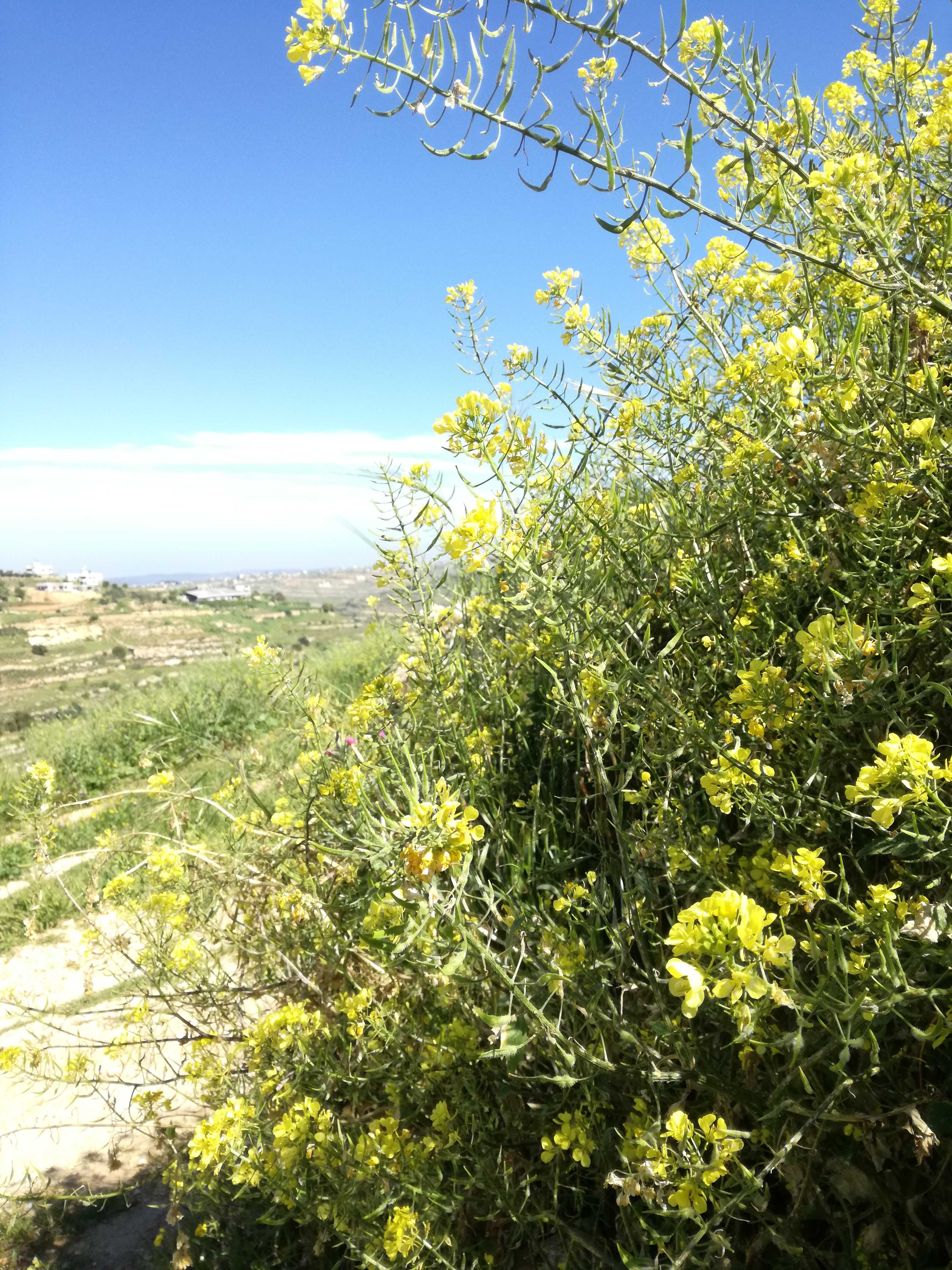 Yellow wild flowers with mountain view